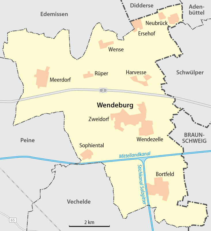 Map of Wendeburg